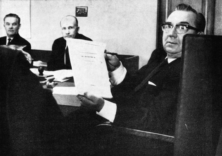 Photograph of the Finnish politician Juho Eemil Partanen (1906–1996).